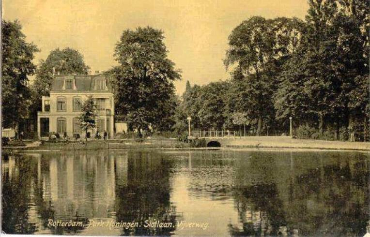 The pond of former Slot Honingen in Rotterdam-Kralingen.